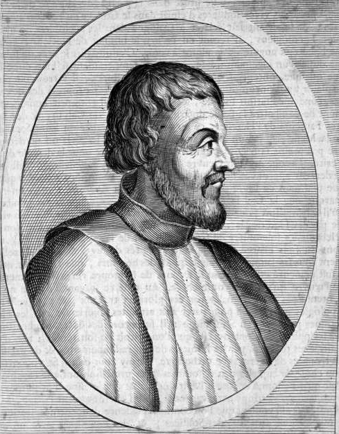 Dutch theologian, mathematician, and astronomer Albert Pighius (1490-1542) by Edme de Boulonois (16..-16..).